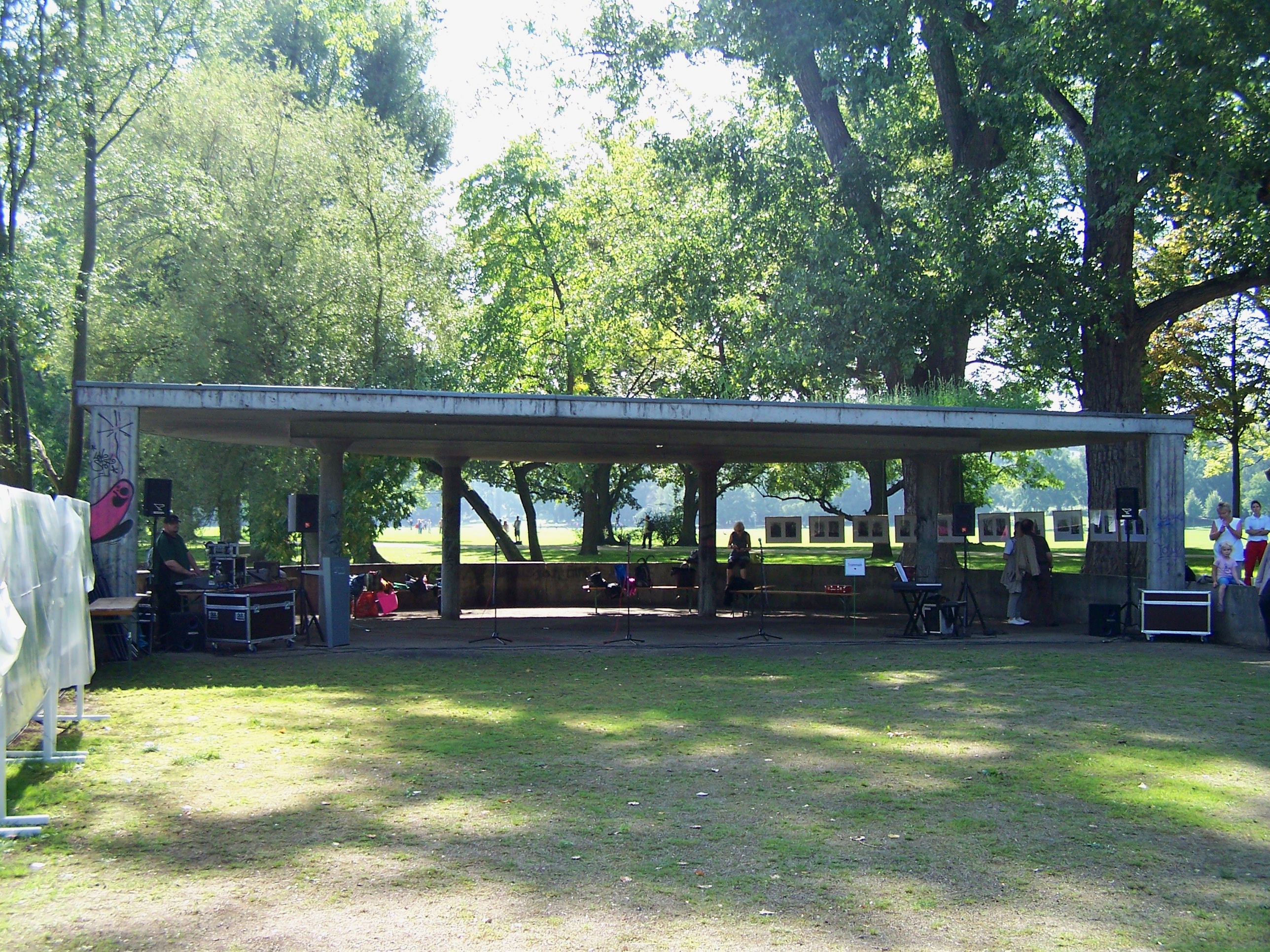 Cut-and-cover shelter of the architect Max Cetto from 1928 in the Ostpark in Frankfurt am Main-Ostend, August 2011